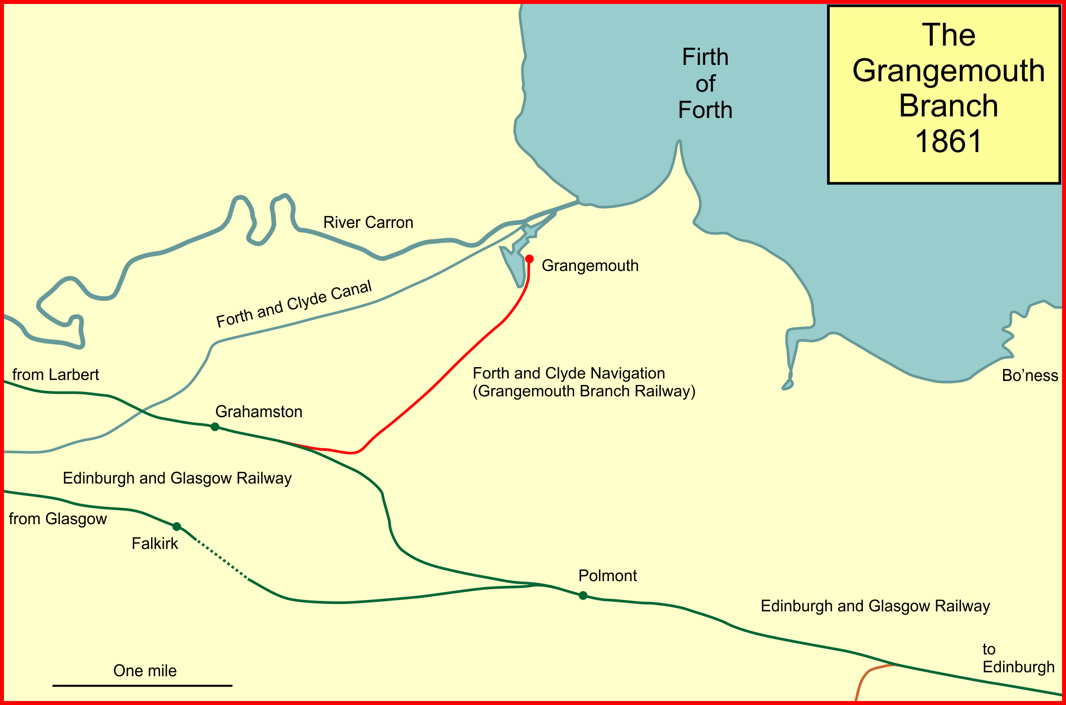 System map of the Grangemouth Railway Branch, Scotland, in 1861